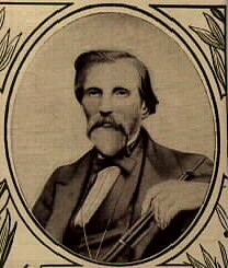 Photography of Frédérick Triébert (1813-1878) in 1855 of the Catalog Triebert, considered one of the designers of the modern oboe.